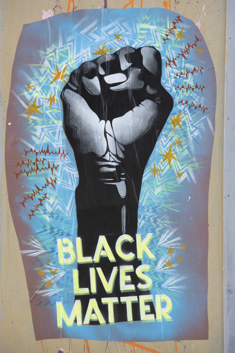 Oakland California June 07, 2020 BlackLivesMatter - Murals